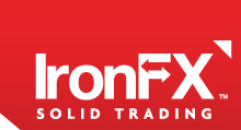 IronFX Global official logo